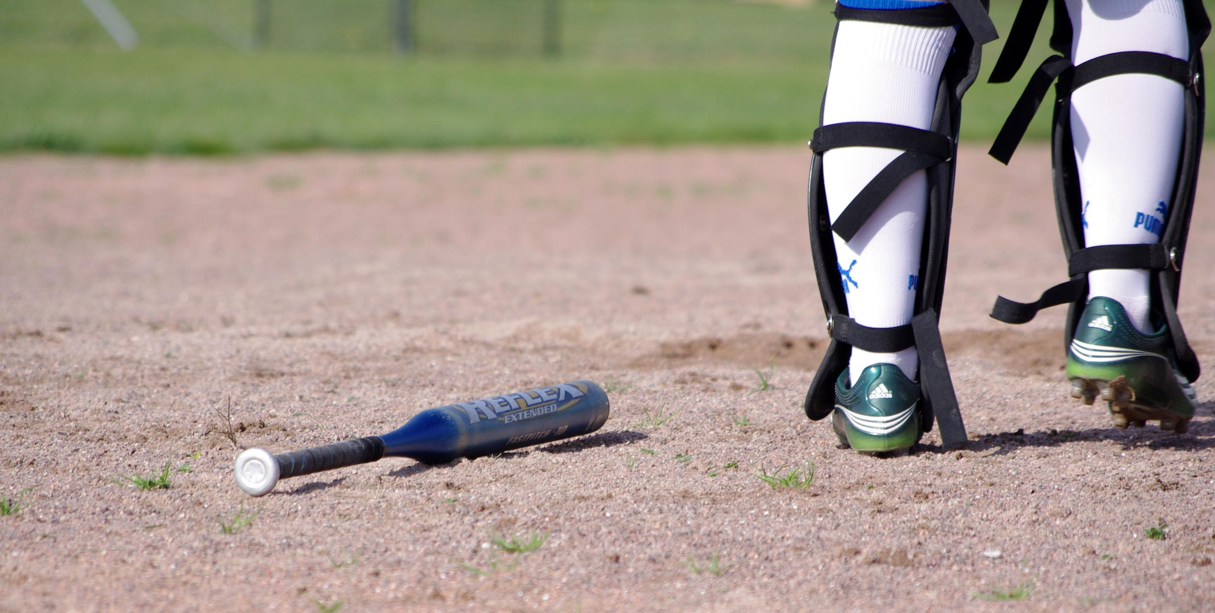 Softball bat